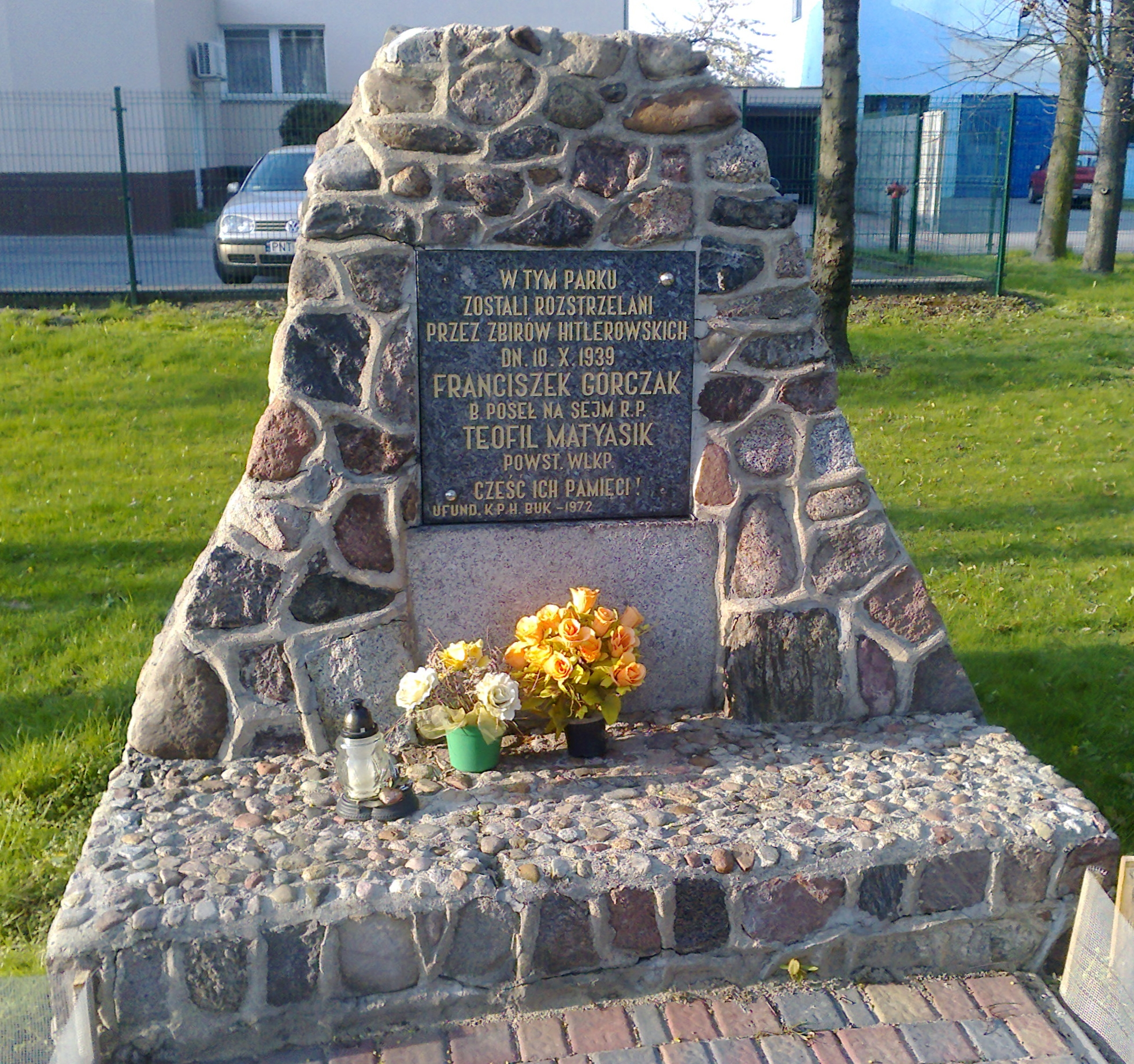 Monument for the victims of nazi-german terror in Buk (Poland)